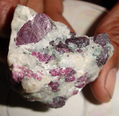 Sample collected from Chandidongari by eminent Geologist Shri B.N.Oudhia.